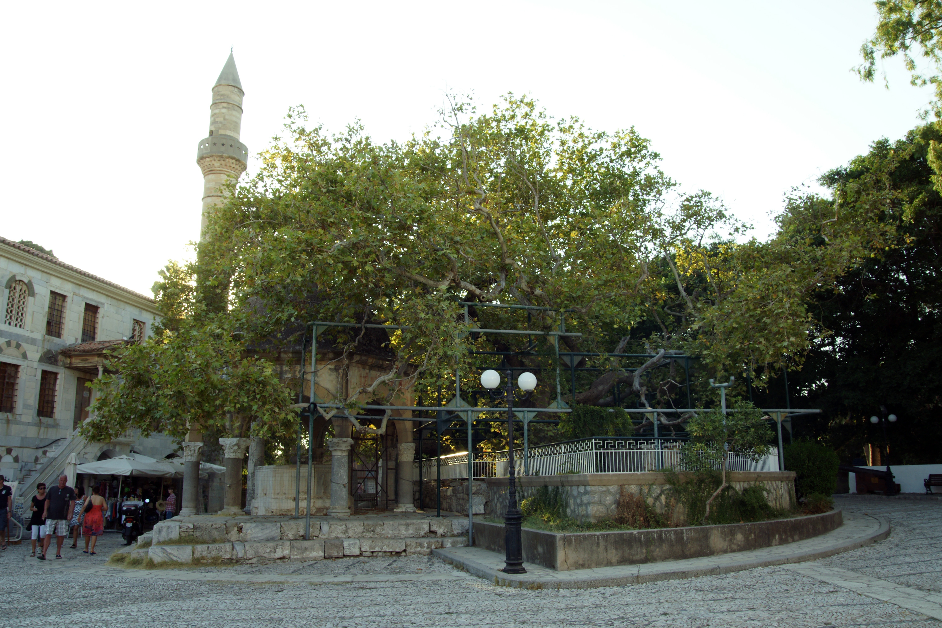 The tree of Hippocrates in Kos.